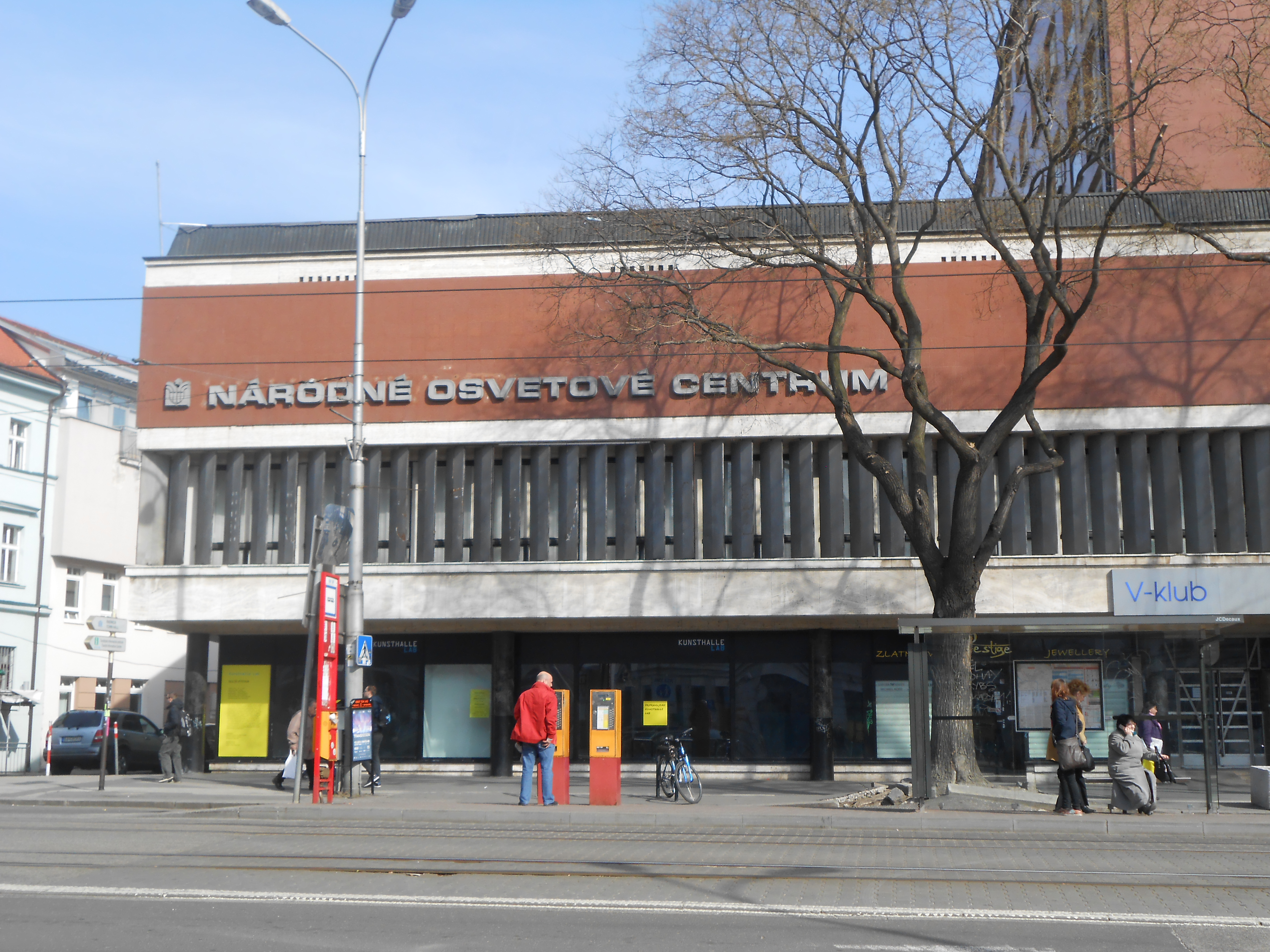 Budova národného osvetového centra v Bratislave